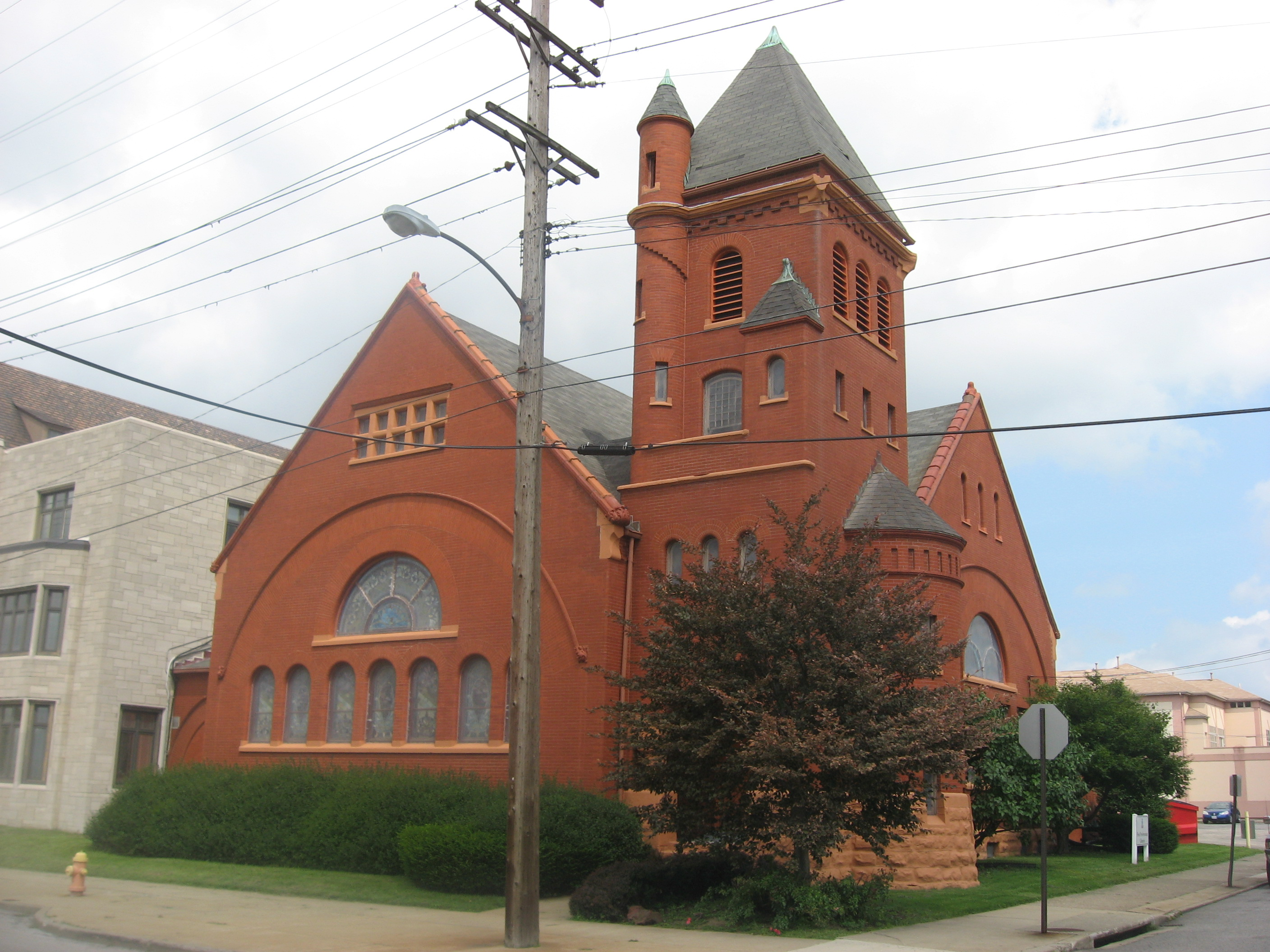 Front and eastern side of Helen Chapel, the First Presbyterian Church of Youngstown, located on the northwestern corner of the junction of Champion and Wood Streets in Youngstown, Ohio, United States. Built in 1889, it is listed on the National Register of Historic Places.